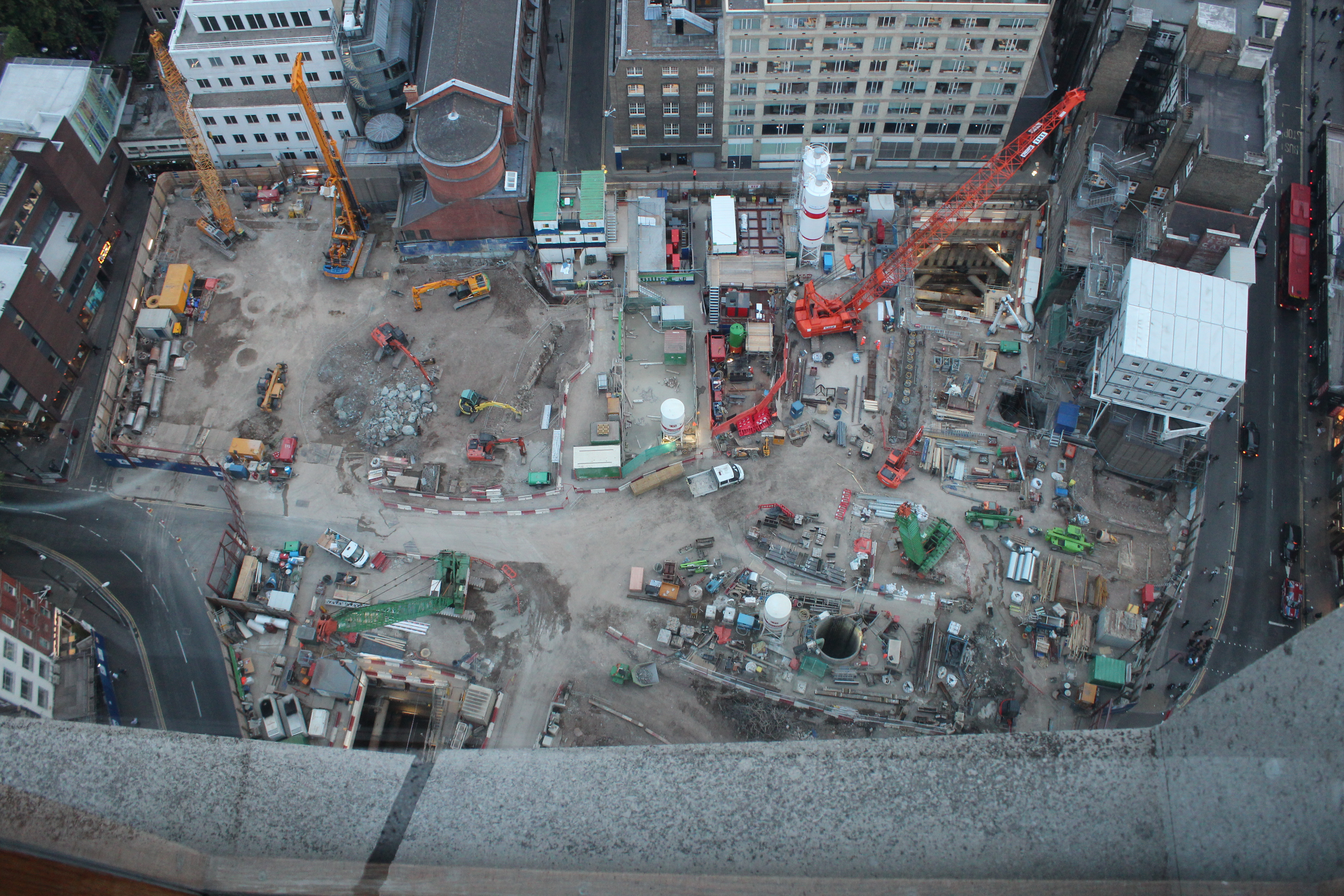 View of construction works at Tottenham Court Road underground station, taken from Centre Point.